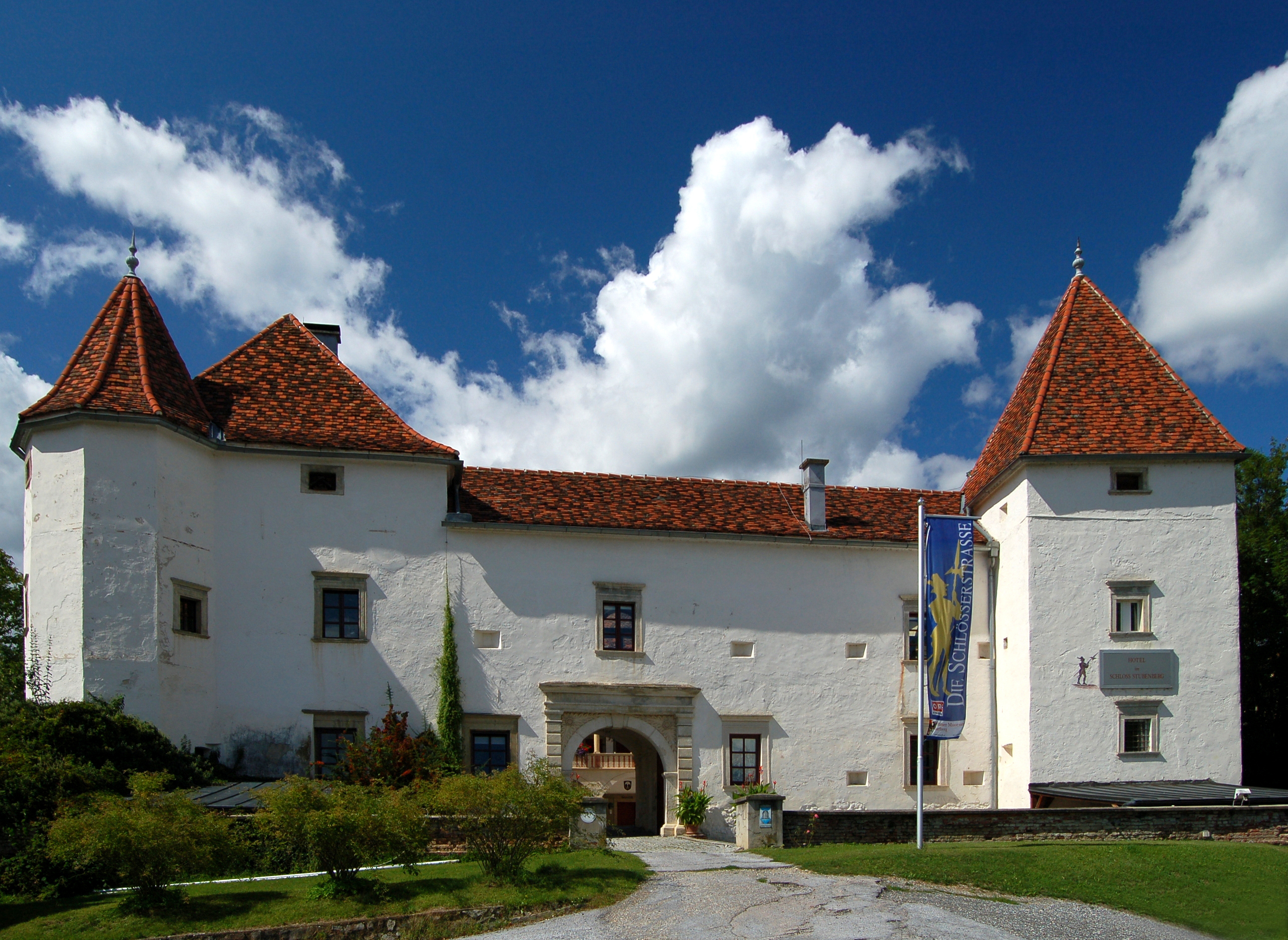 Schloss Stubenberg (Castle Stubenberg) in Stubenberg, Styria, is a former monastery and now a hotel. It is a cultural heritage monument now.